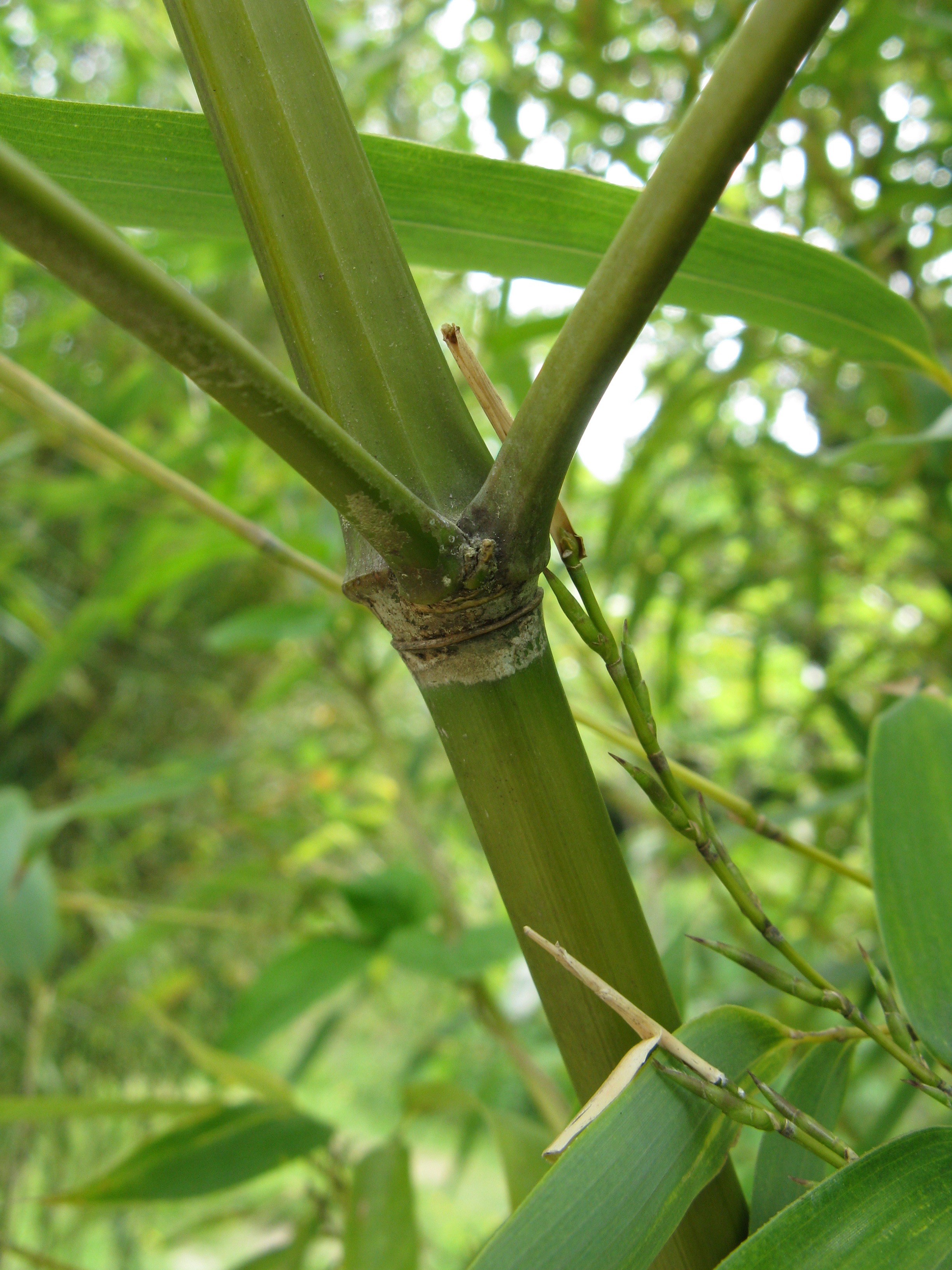 Phyllostachys bambusoides f. castillonis